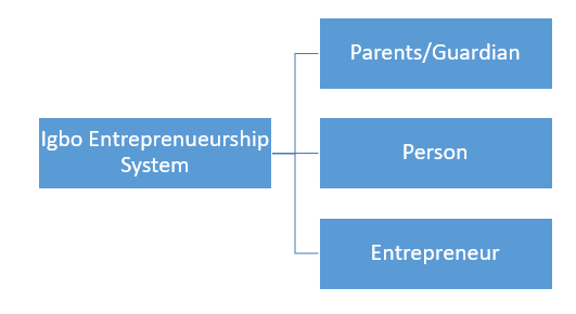 The image depicts the main players in the Igbo Entrepreneurship System